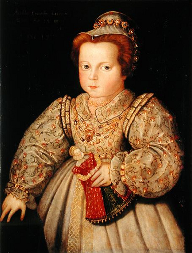 Arbella Stuart as a toddler in the year 1577.